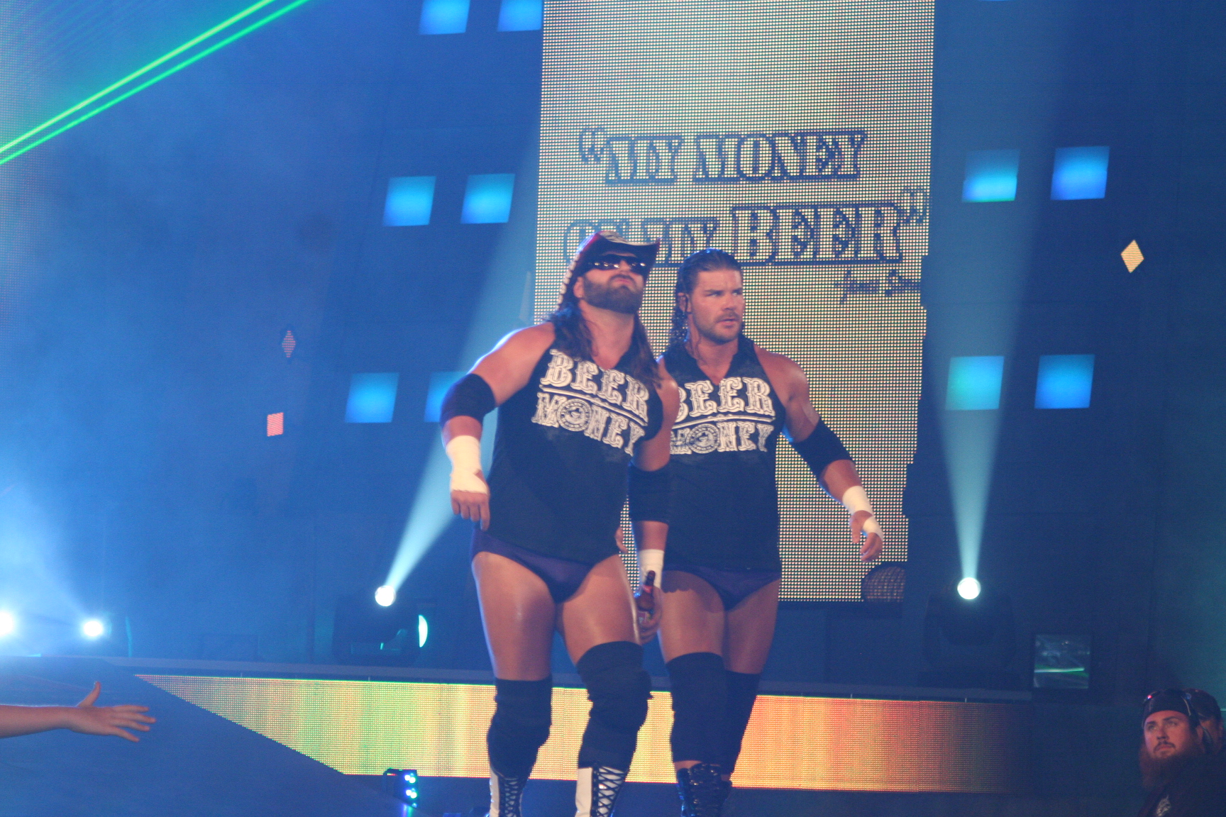 Beer Money, Inc. (James Storm, left, and Robert Roode, right) at the TNA Impact! tapings on July 26, 2010.